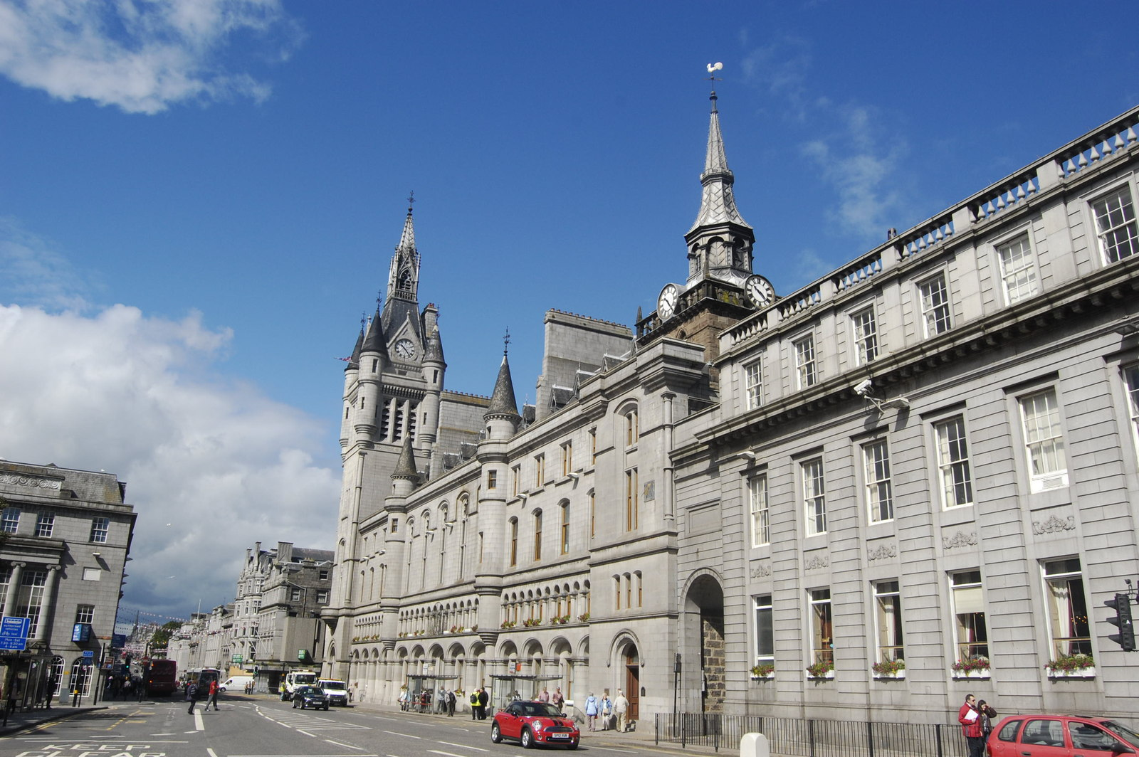 Town House, including Municipal Offices, Court Houses and Tolbooth